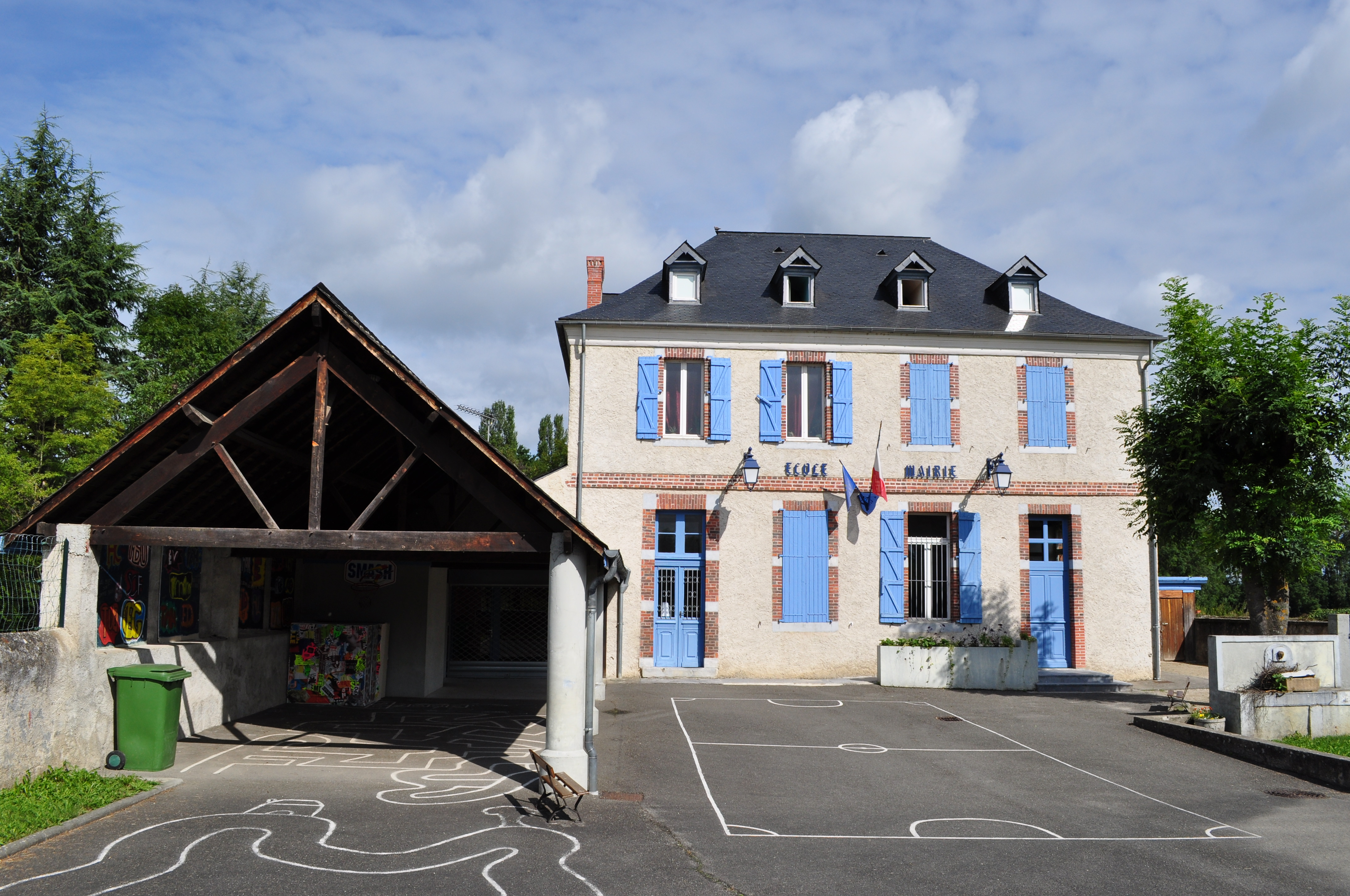 City hall and school of the french village of Hiis.